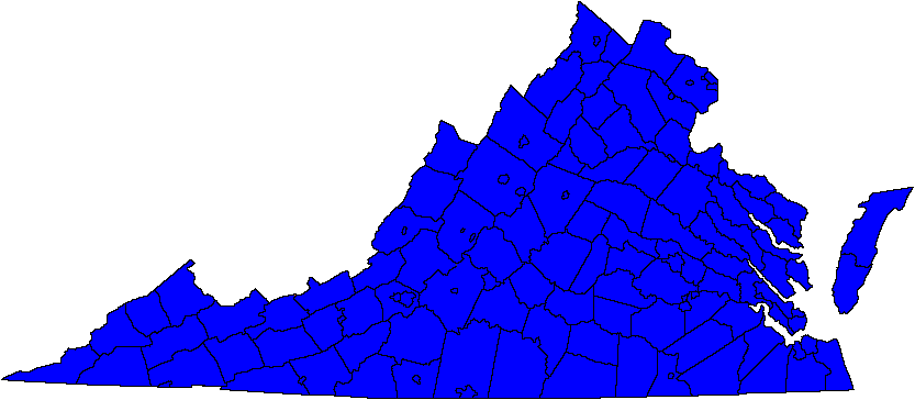 Map showing county choices of the 1988 Senate election in Virginia, between Democrat Chuck Robb and Republican Maurice Dawkins